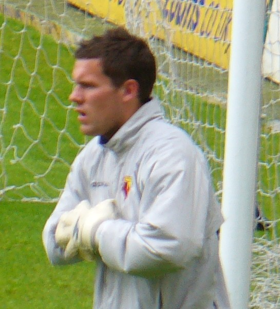 England and Birmingham City goalkeeper Ben Foster